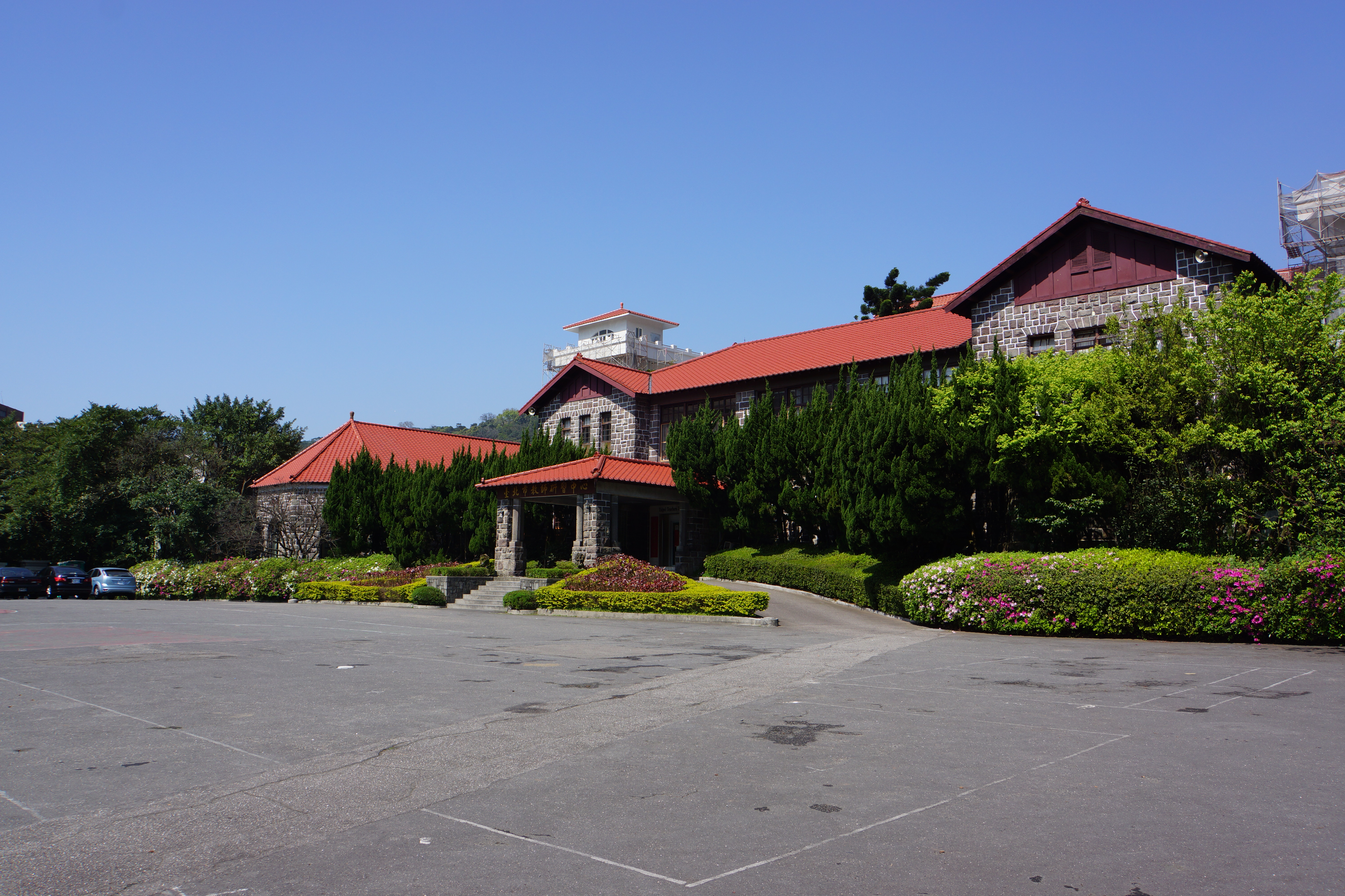 草山眾樂園 Caoshan Public Recreation Center